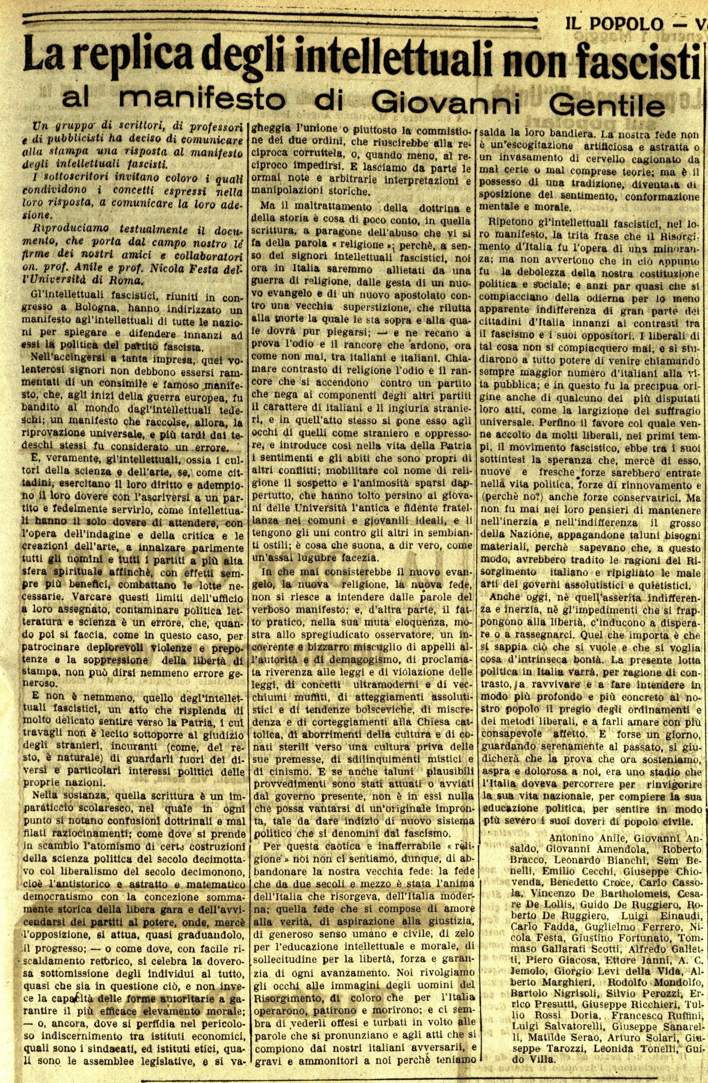 Manifesto of the Anti-Fascist Intellectuals, written by Benedetto Croce in 1915 and published on "Il Popolo (1925 May 1)